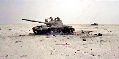 An Iraqi T-62 knocked out during the Battle of Khafji.